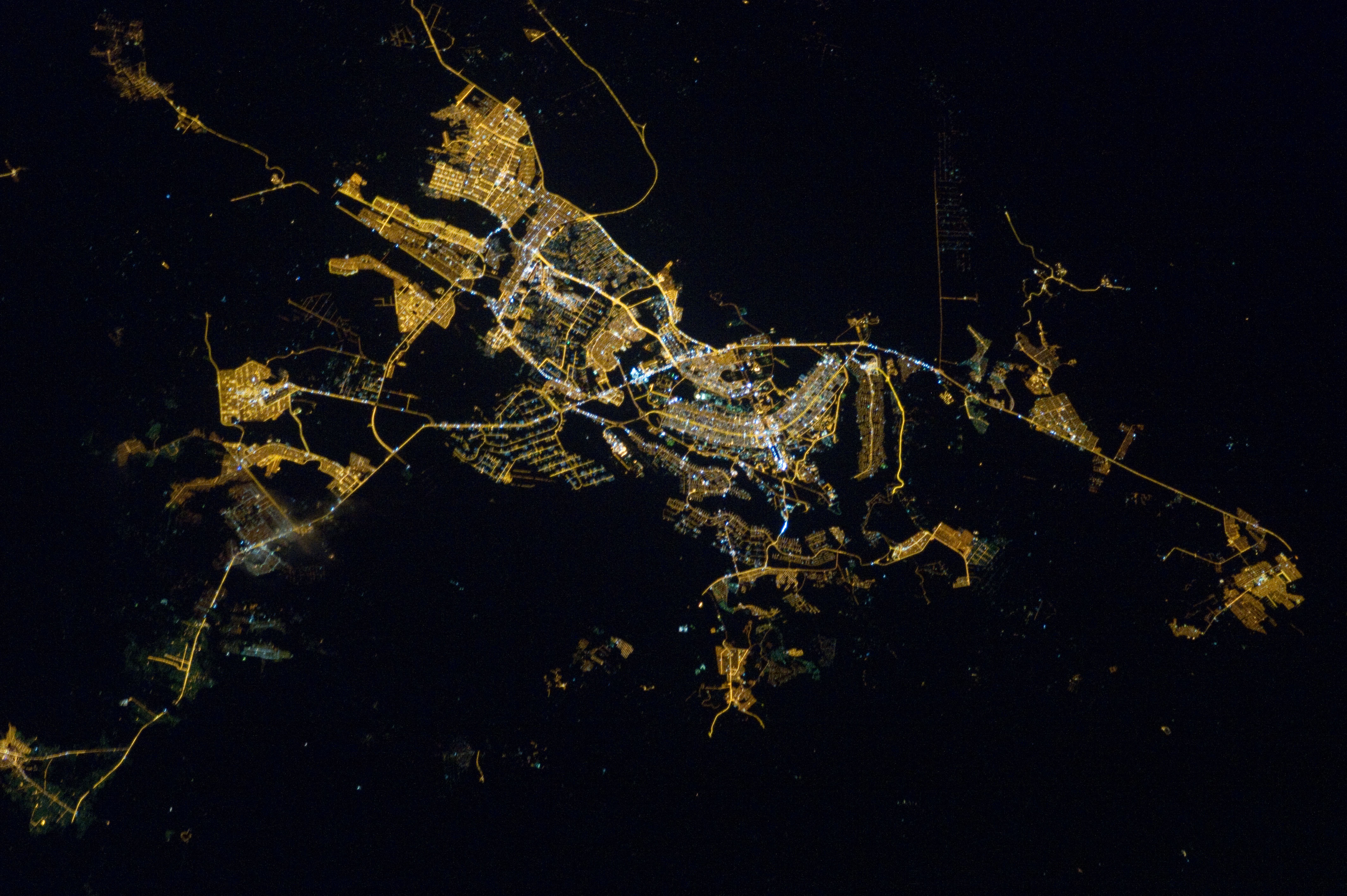 Night view of the Federal District, Brazil.